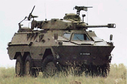 Ratel-90 armoured car in action with the South African Army.